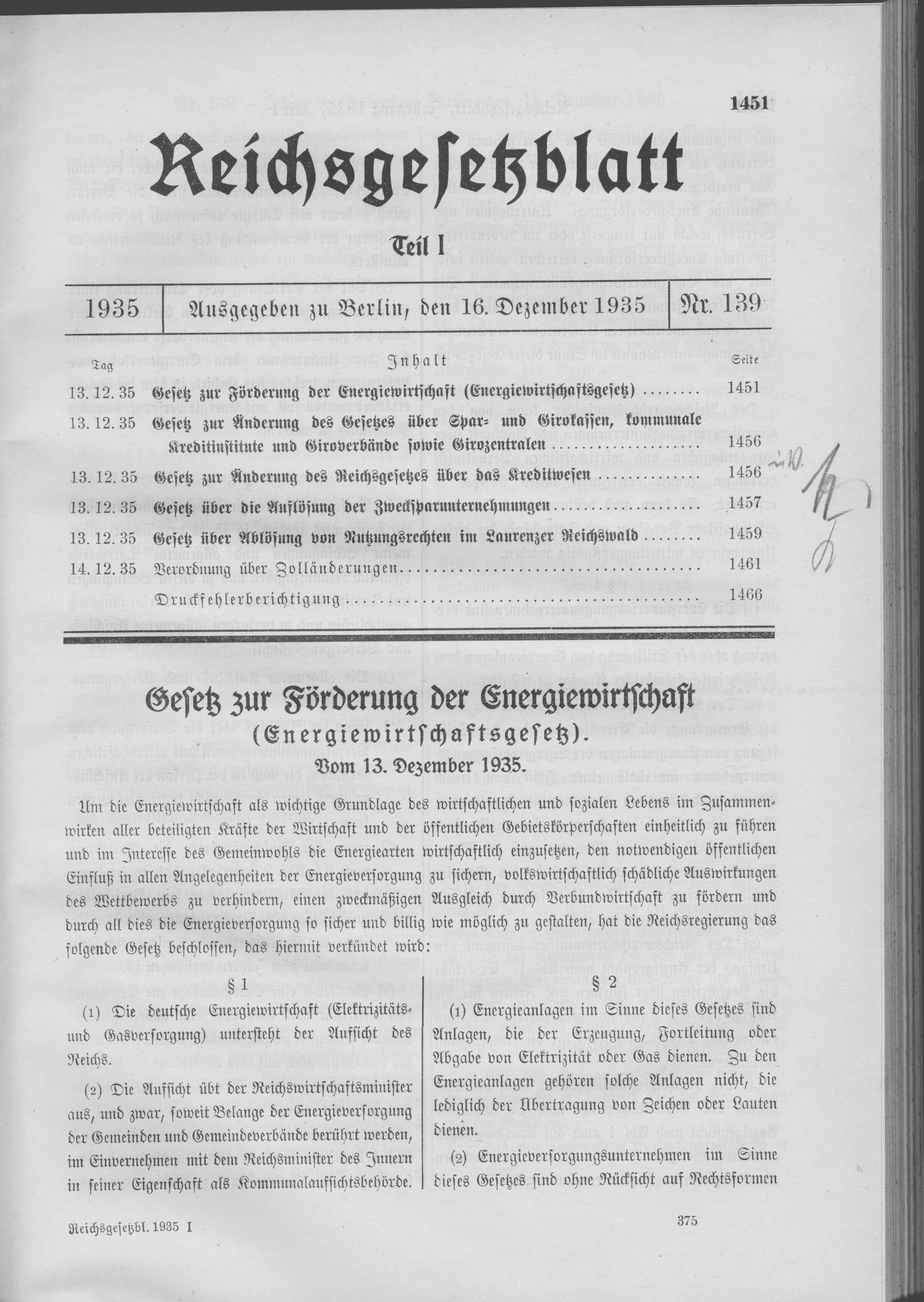 Scan from the Imperial Law Gazette of Germany, 1935, part 1